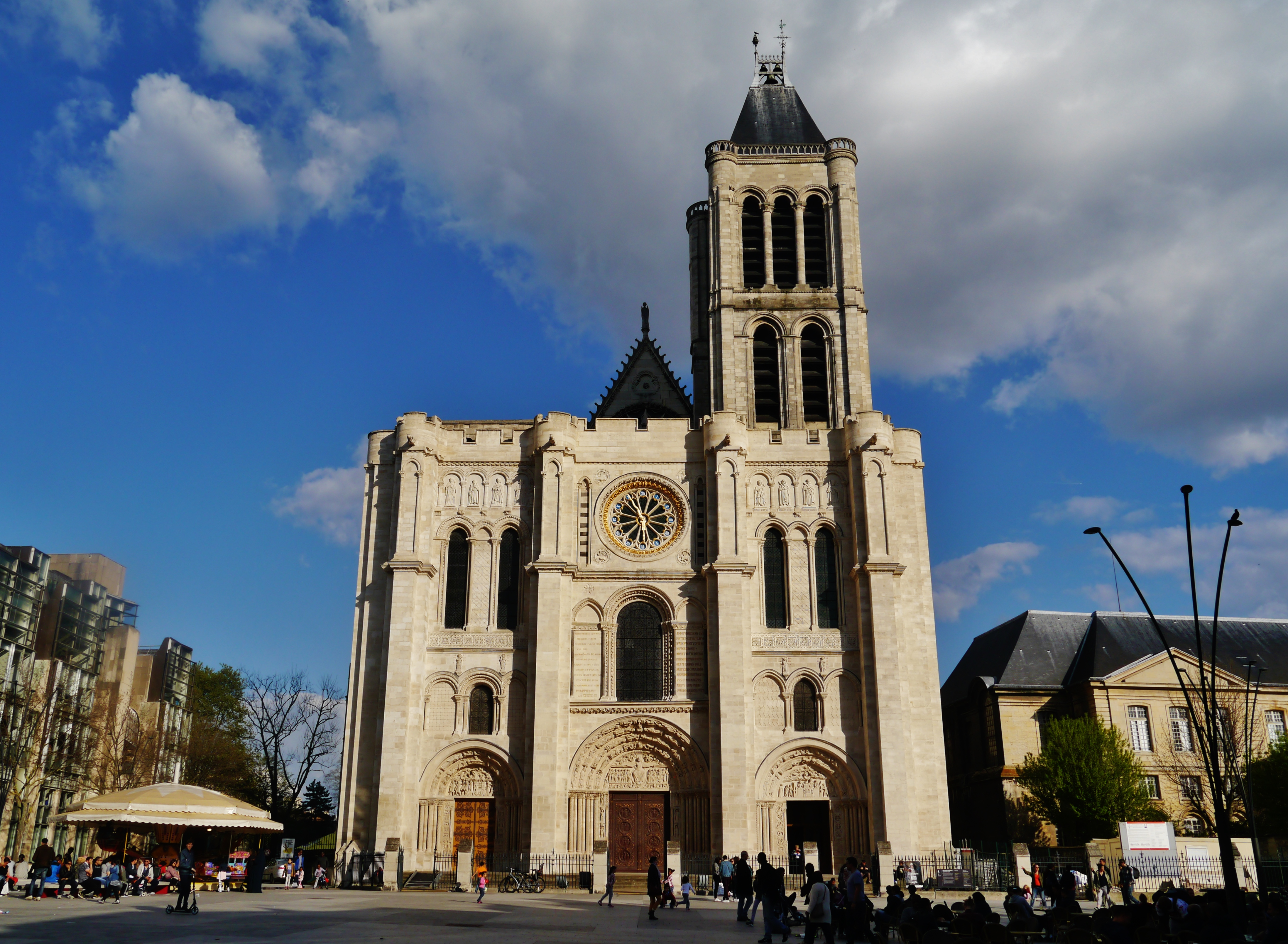 Facade of the Basilica St. Denis, Saint-Denis, Département of Seine-Saint-Denis, Region of Île-de-France, France